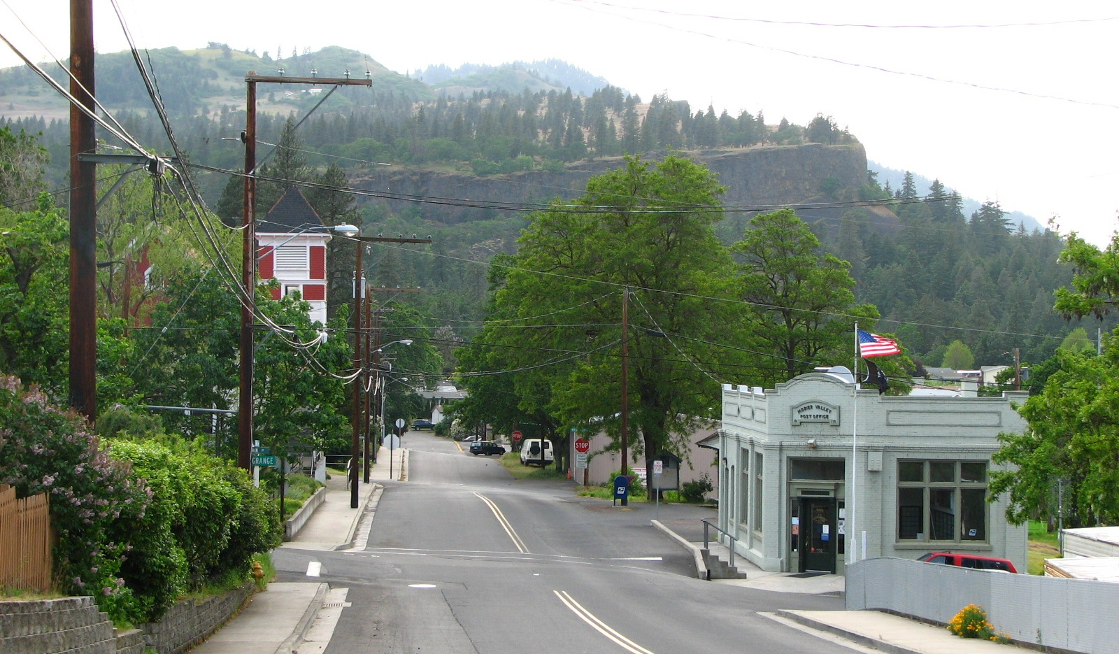 View along Third Avenue in Mosier, Oregon, United States.